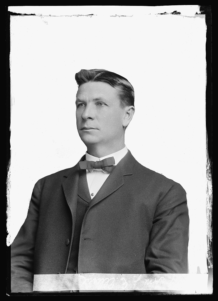 J. Edwin Ellerbe photographed by C M Bell Studio